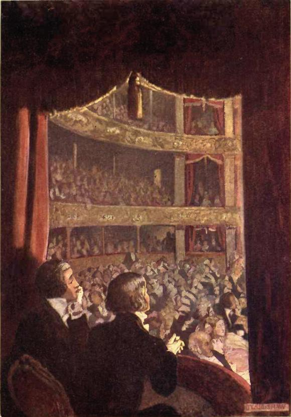 Byam Shaw's illustration for Poe's The Spectacles in "Selected Tales of Mystery" (London : Sidgwick & Jackson, 1909) on the page to face p. 306 with caption "I amused myself by observing the audience"